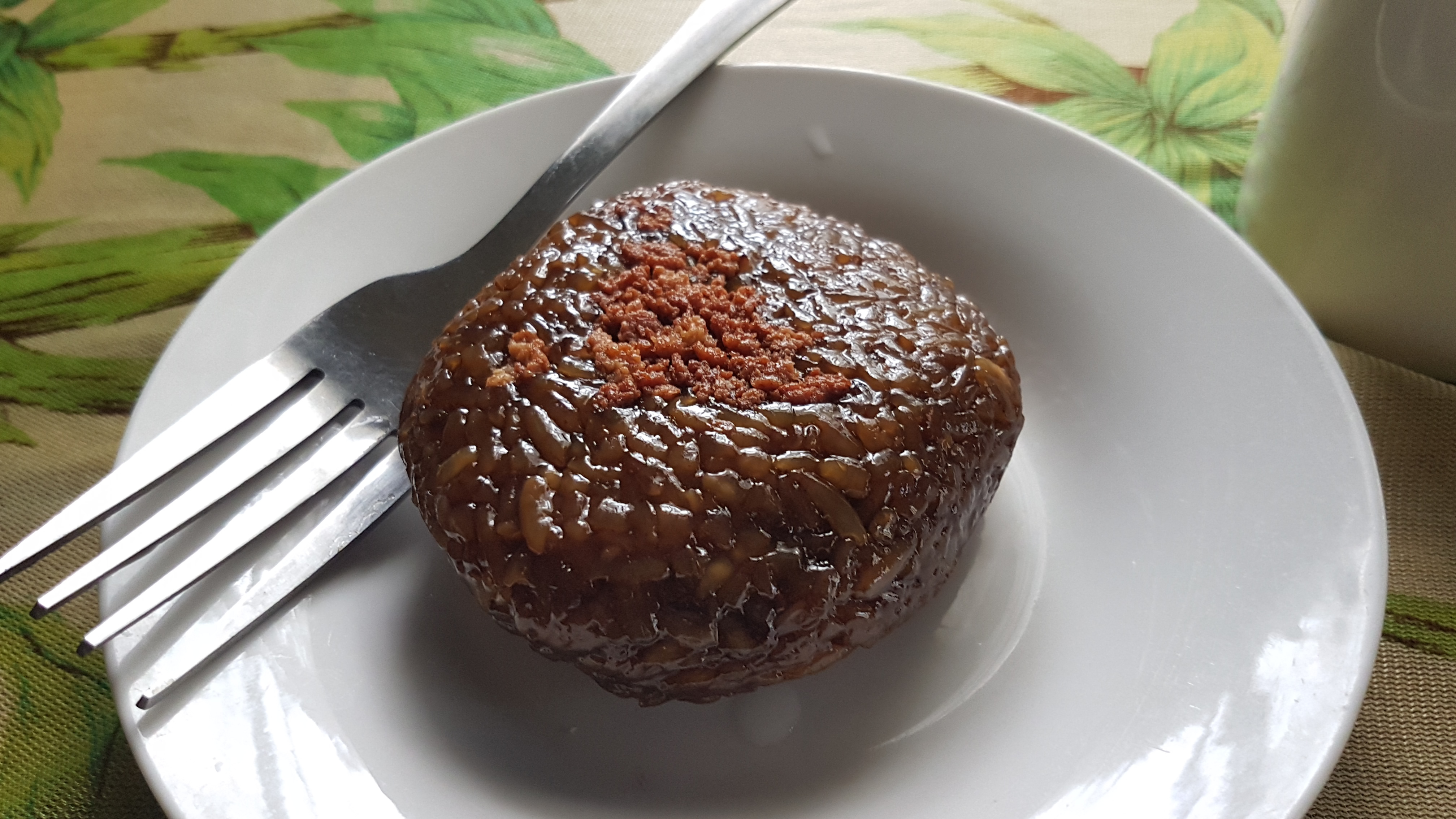 Puto maya (Mindanao, Philippines)